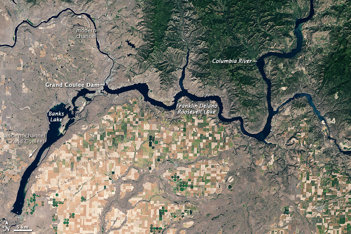 The Enhanced Thematic Mapper on NASA’s Landsat 7 satellite captured this image of the Grand Coulee Dam and Franklin Delano Roosevelt Lake on July 23, 1999.